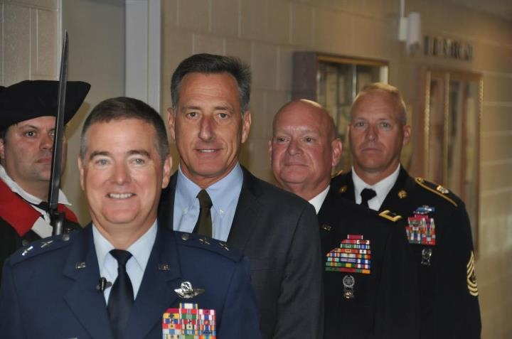 Lieutenant General (Select) Michael Dubie, Governor Peter Shumlin, Brigadier General (Vermont Thomas Drew, Command Sergeant Major Forest Glodgett prepare to enter hall for Transfer of Authority ceremony as Drew succeeds Dubie as Vermont Adjutant General. Photo by James Greene, Vermont National Guard.